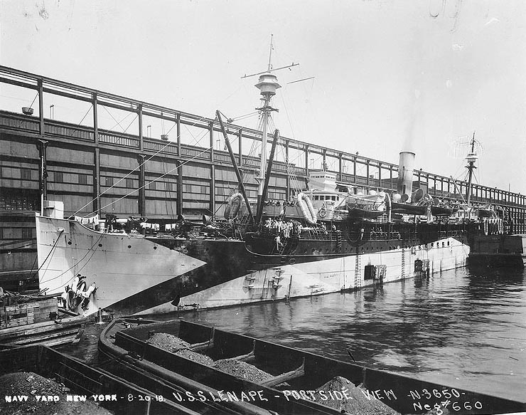 USS Lenape (ID # 2700) At the New York Navy Yard, 20 August 1918. Note Lenape's pattern camouflage, the large doors in her hull side, and the loaded coal barges in the foreground. U.S. Naval Historical Center Photograph.